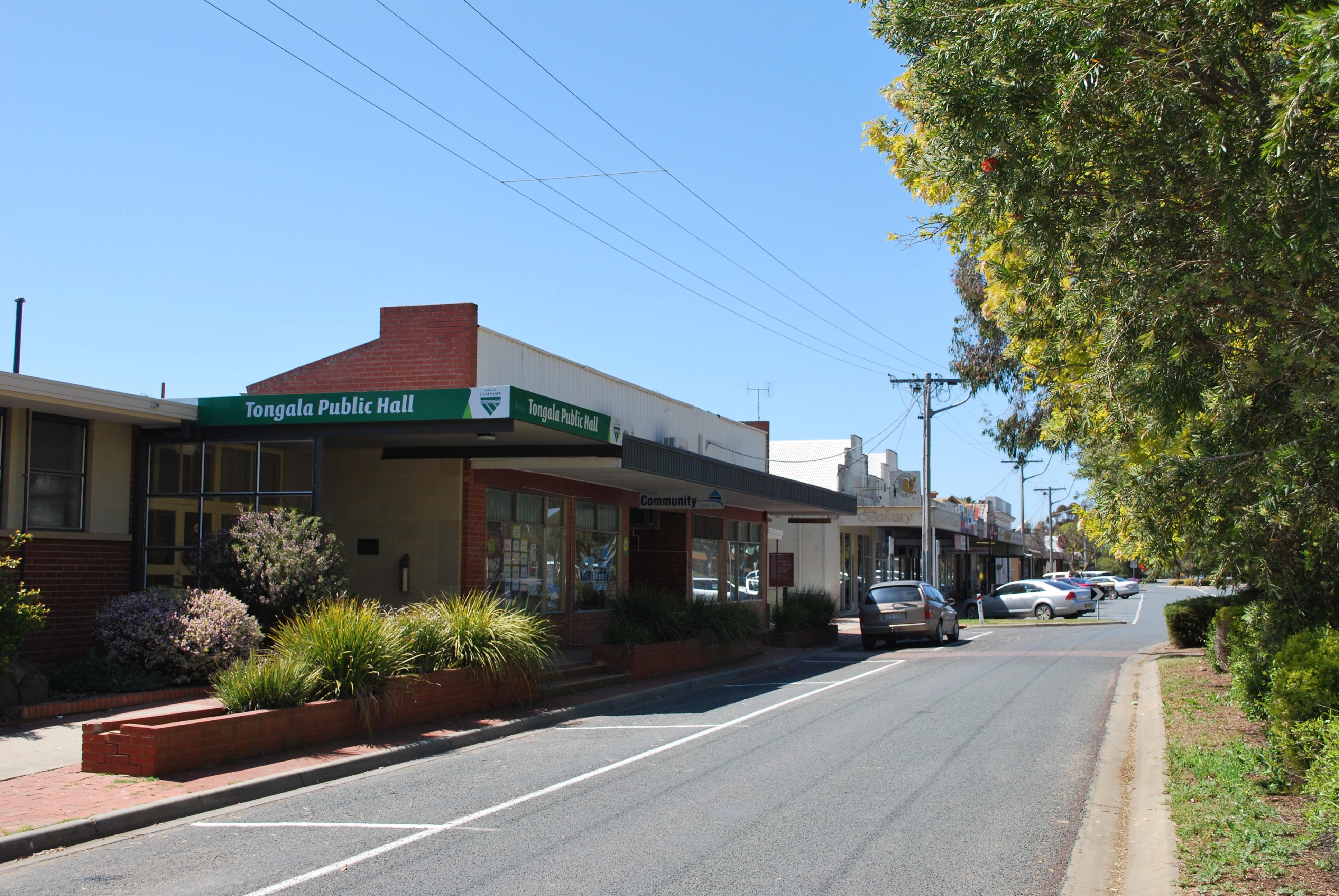 Tongala Public Hall, formerly the Shire Of Deakin Hall, at Tongala, Victoria